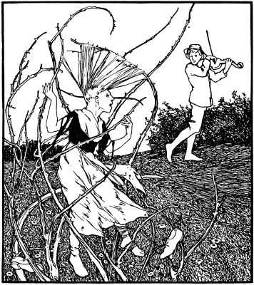 Illustration by Otto Ubbelohde to the fairy tale Sweetheart Roland